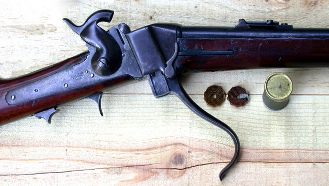 Sharps 1853 Rifle, open action